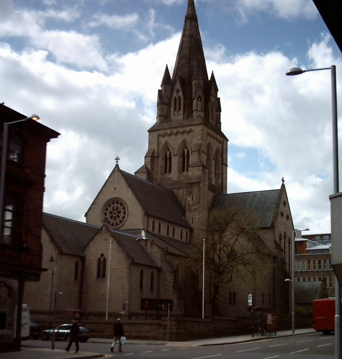 Nottingham Cathedral, taken by me 20/04/2004